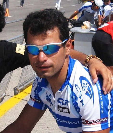 Mehdi Sohrabi in National Championship of iran in Semnan